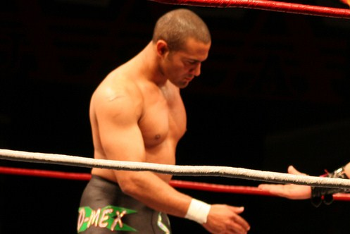 Rocky Romero at a AAA show on March 28, 2009, in Sacramento, California. Cropped from original.